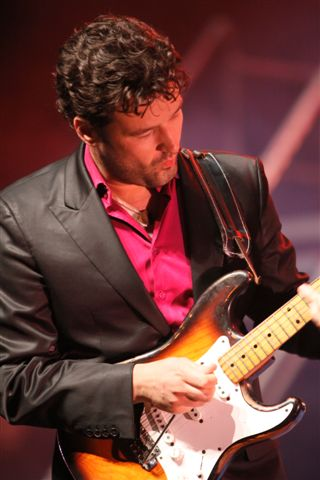 French award-winning guitarist Jean-Pierre Danel live in Brussels (at the Royal Circus), playing his rare 1954 preproduction Fender Stratocaster "Miss Daisy"